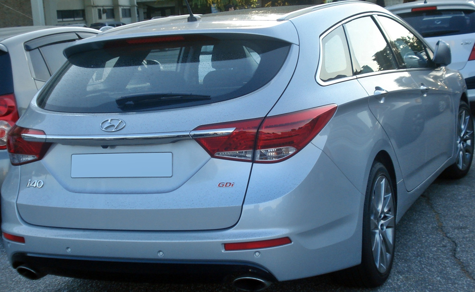 Hyundai i40